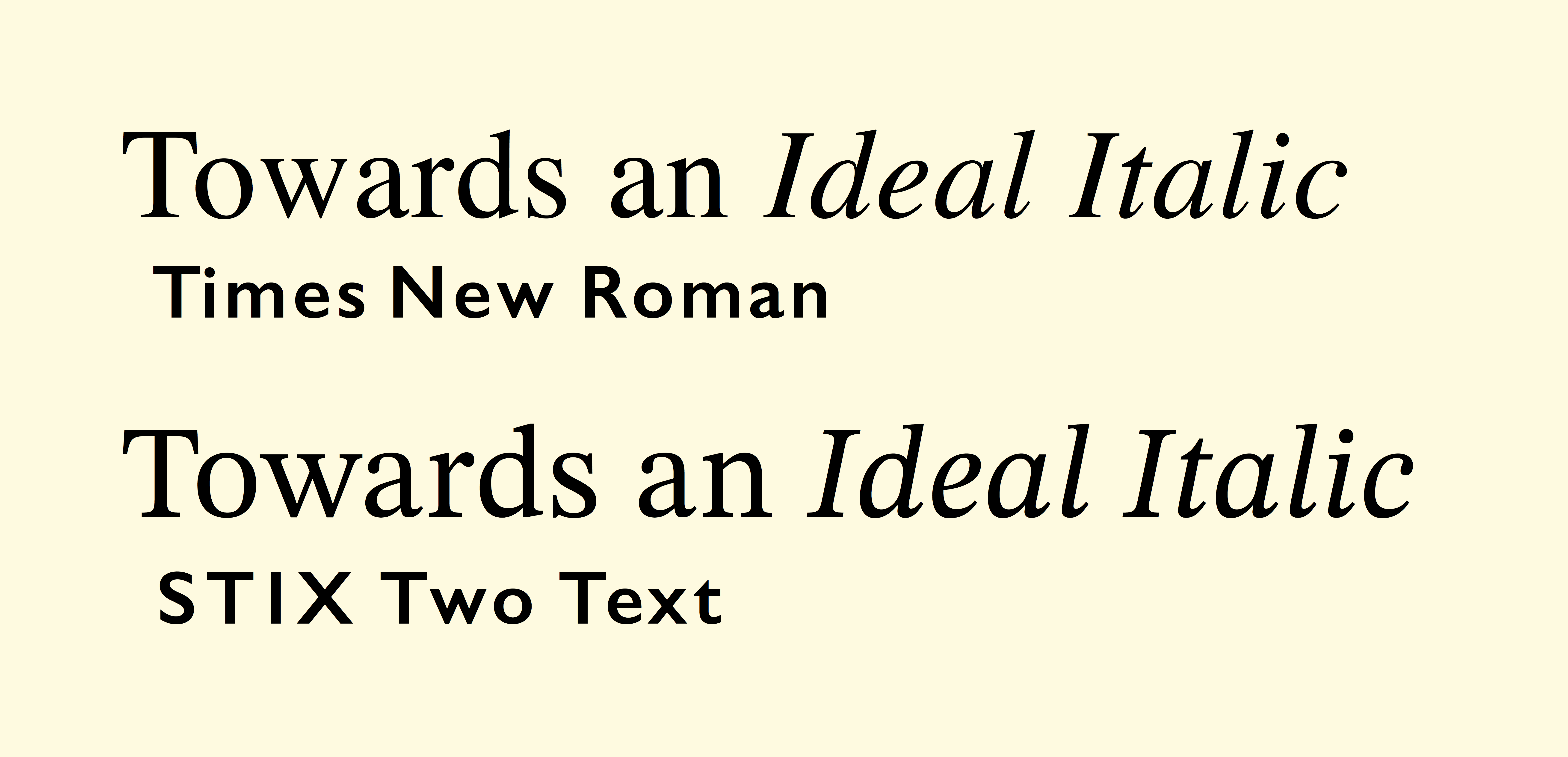 Times compared to the STIX Fonts project